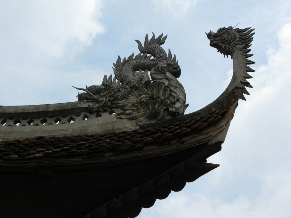 Dận Pagoda, Từ Sơn, Bắc Ninh, Việt Nam